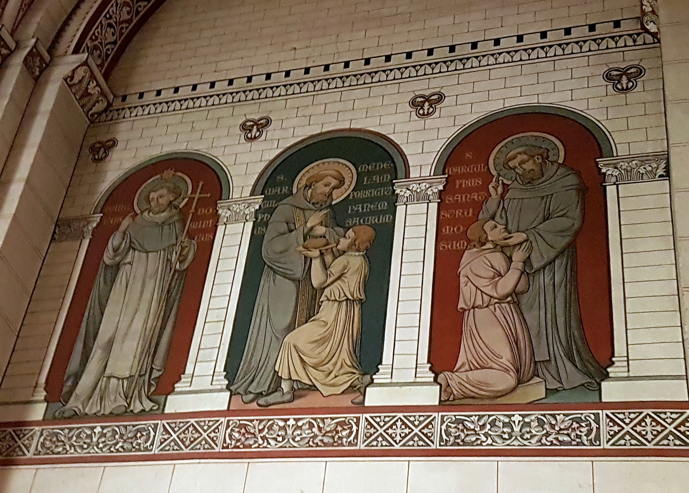 Detail of the north transept chapel of the Basilica of Saint Servatius in Maastricht, the Netherlands. The chapel is dedicated to Saint Eloi and Saint Marcouf. For centuries this was merely a passage between the church and the Koningskapel (now largely demolished). The north transept chapel features the Romanesque Revival polychromy and furniture designs that the architect Pierre Cuypers intended for the whole church in the late 19th century. Here: scenes from the life of Saint Marcouf.